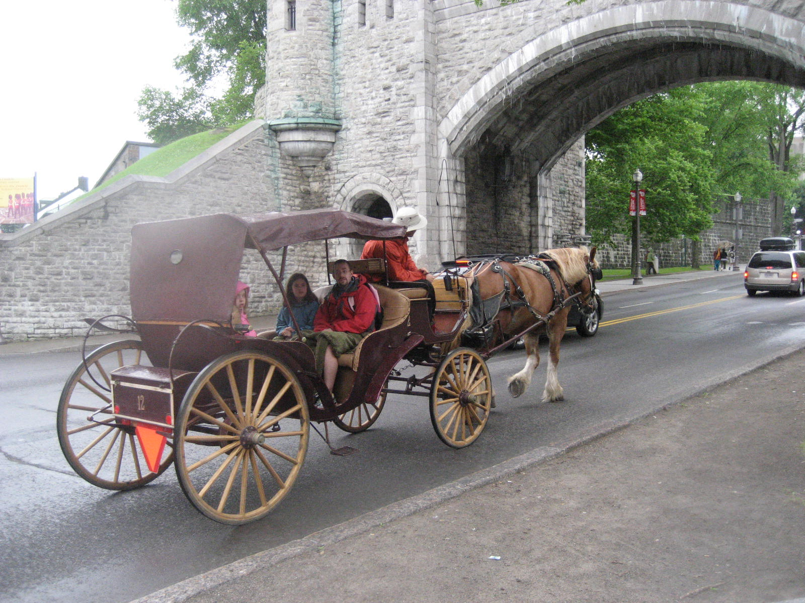 Quebec City, Canada, July, 2009